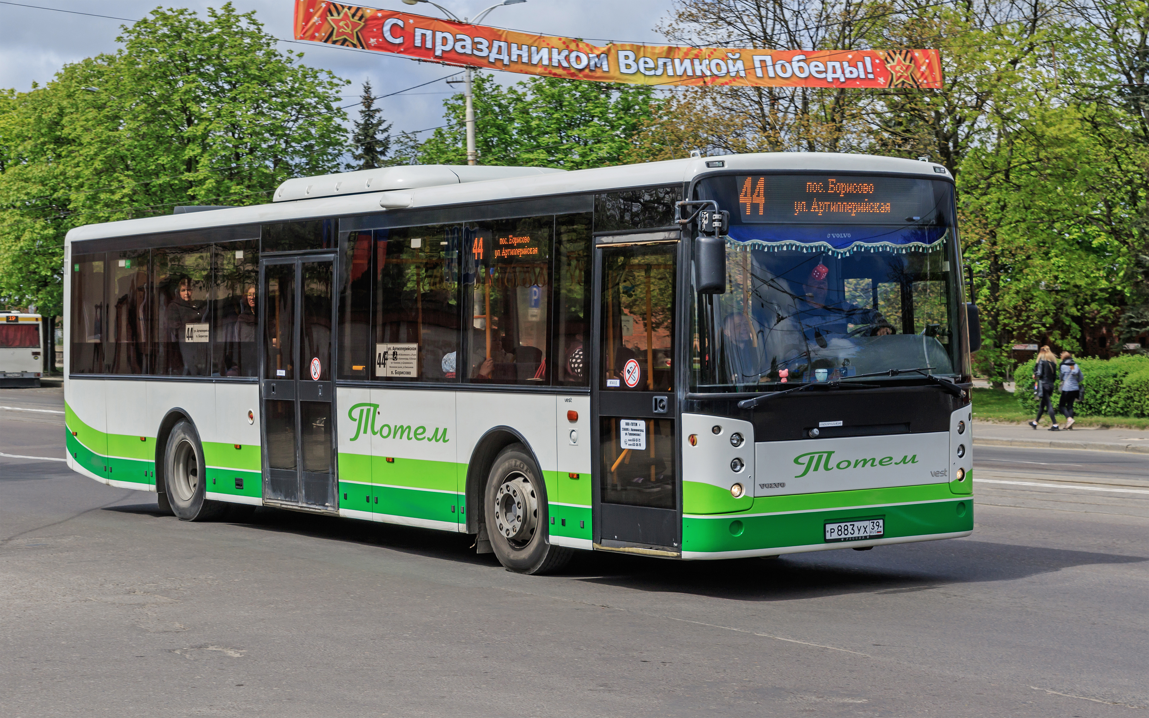 Bus on route 44 in Kaliningrad formerly Königsberg, Kaliningrad Oblast (Russia).